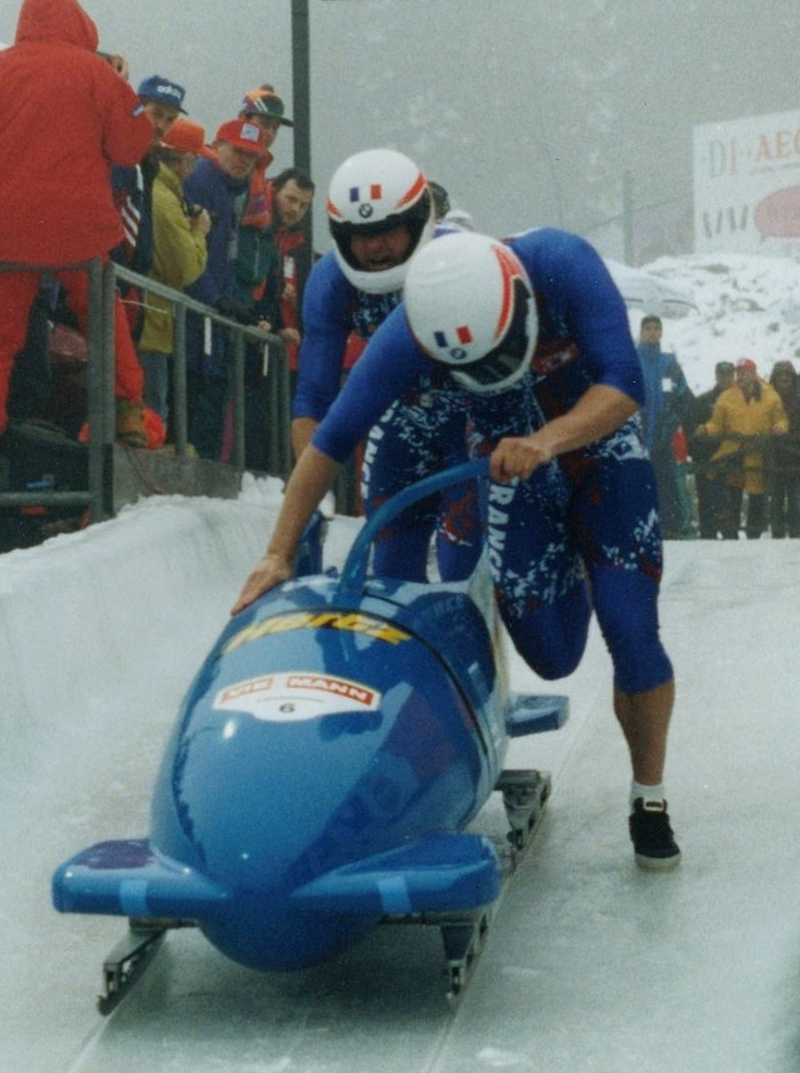 Alard - Le Chanony at the start during Bobsleigh World Championship 1995